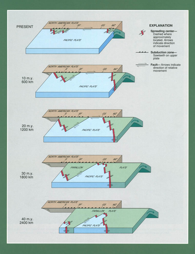 Sequential diagrams showing interactions between the North American, Farallon, and Pacific plates, assuming a constant relative motion of 6 cm/yr parallel to the San Andreas fault (modified from Atwater, 1970)